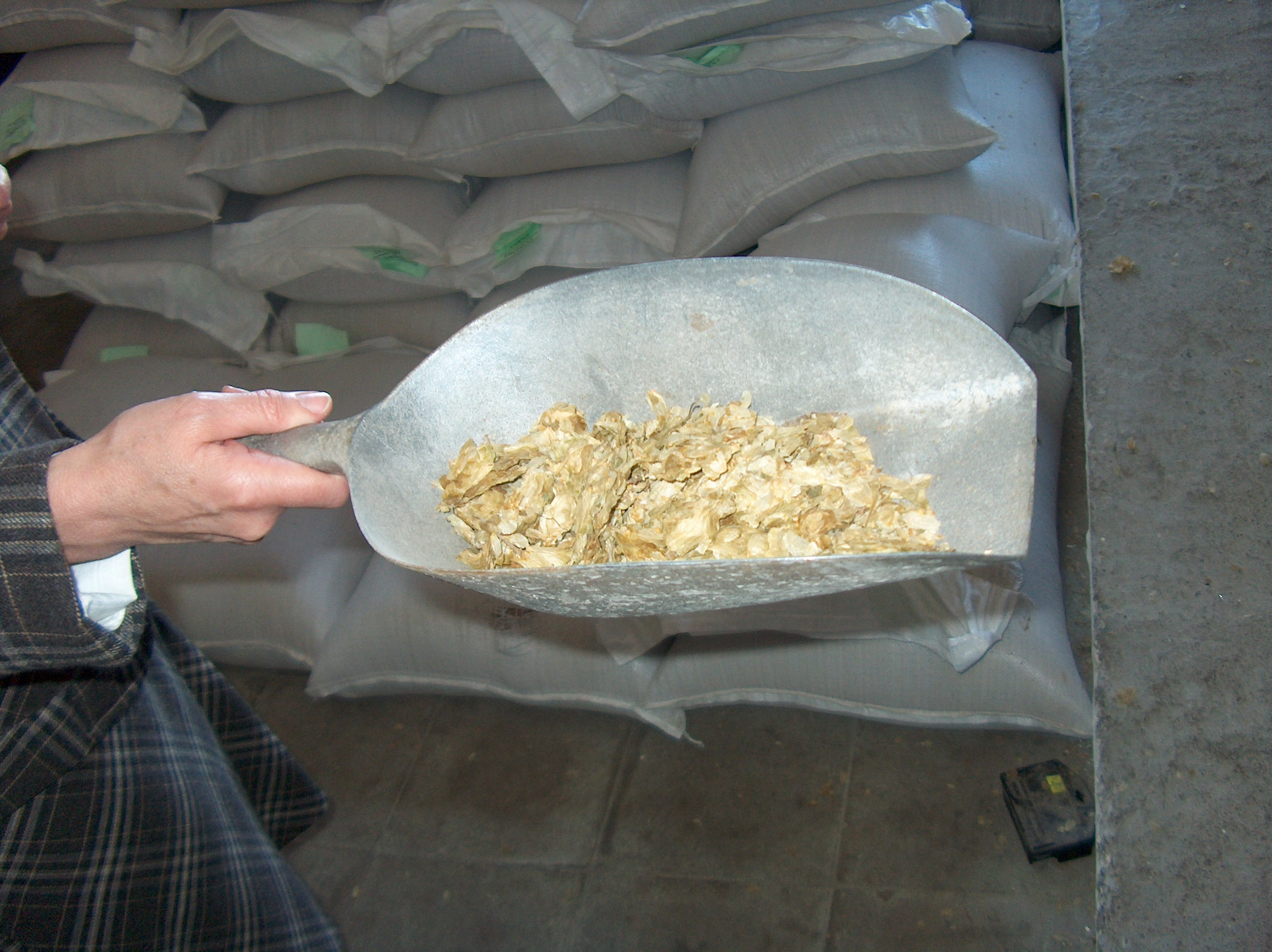 crushed elderly hops used for lambic beer brewing